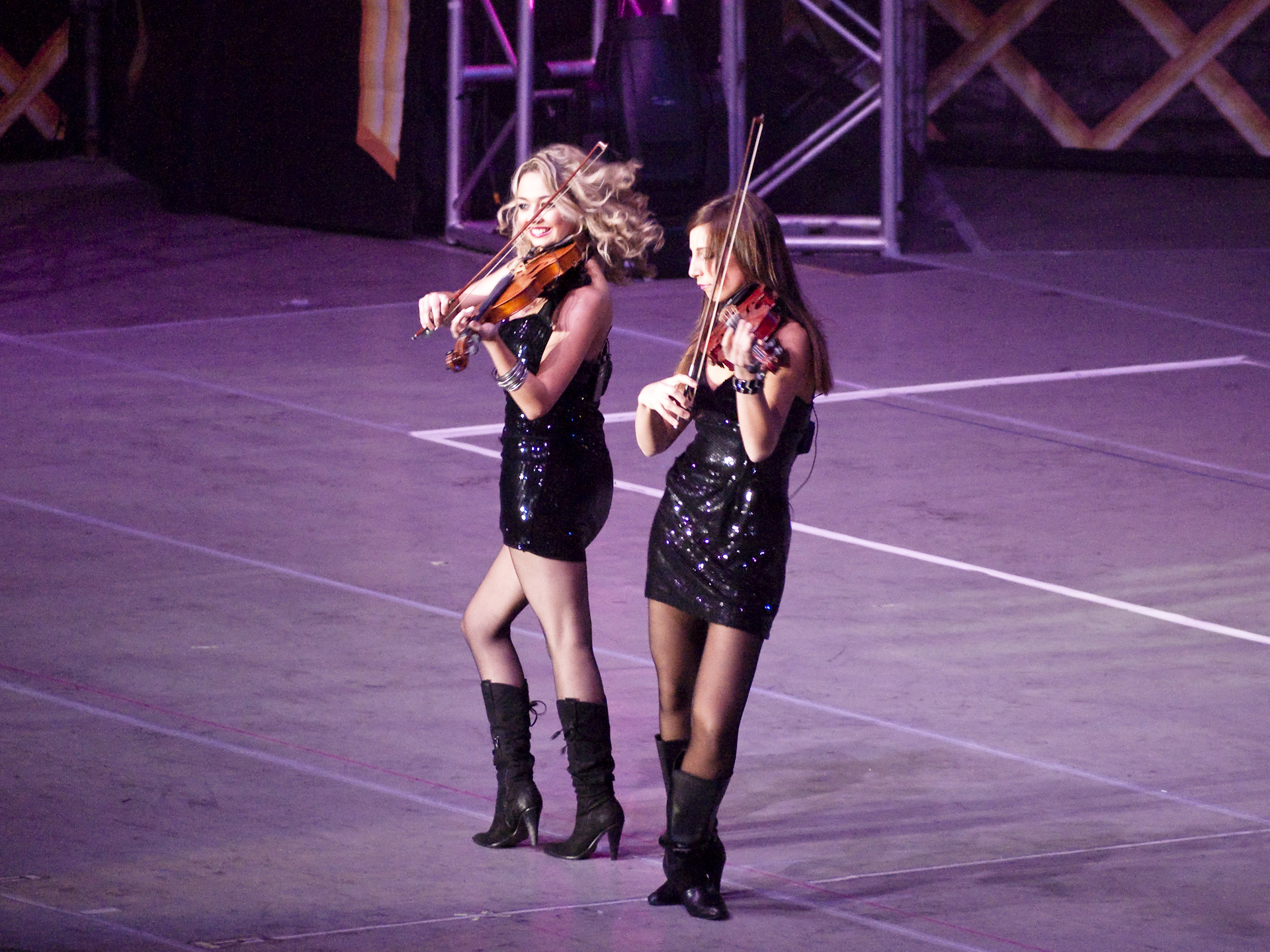 Dueling Violins from Michael Flatley's Lord of the Dance